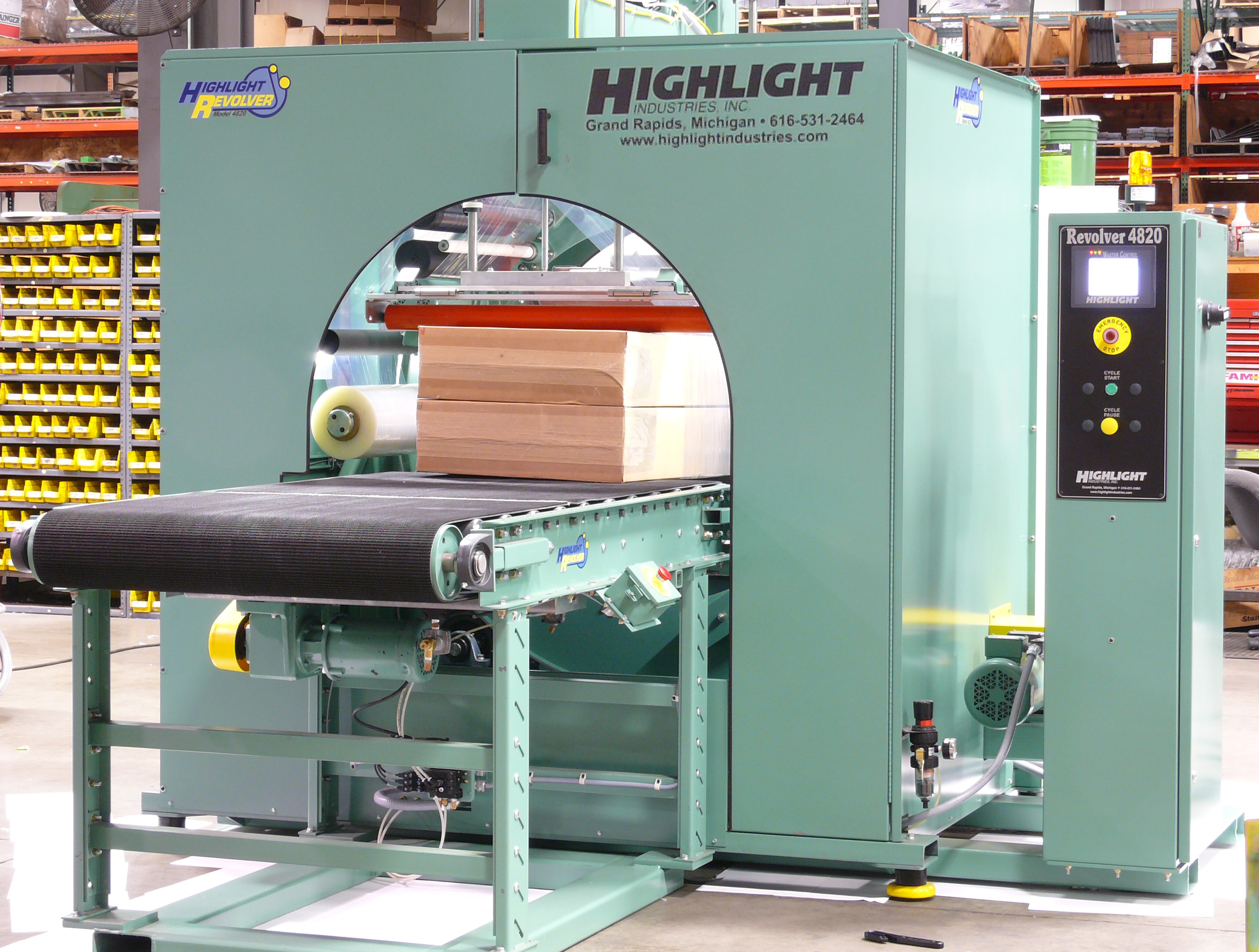 An orbital stretch wrapper, the Revolver 4820 made by Highlight Industries.